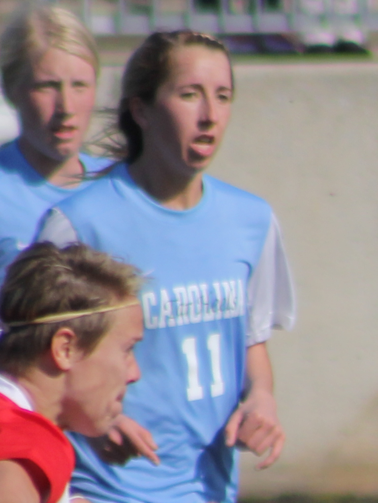 Kelly McFarlane (11)